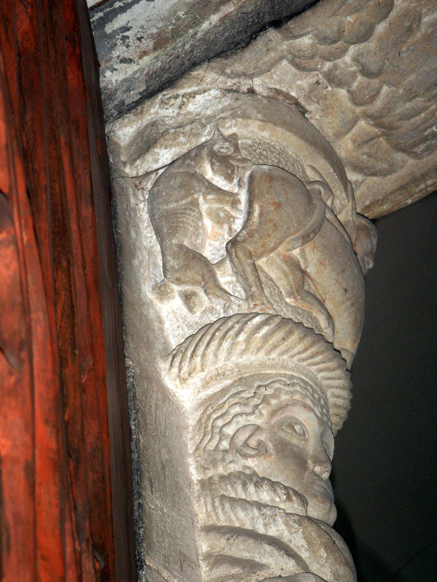 Curch of the monestry of Millstatt district Spittal an der Drau in Carinthia / Austria / European Union.